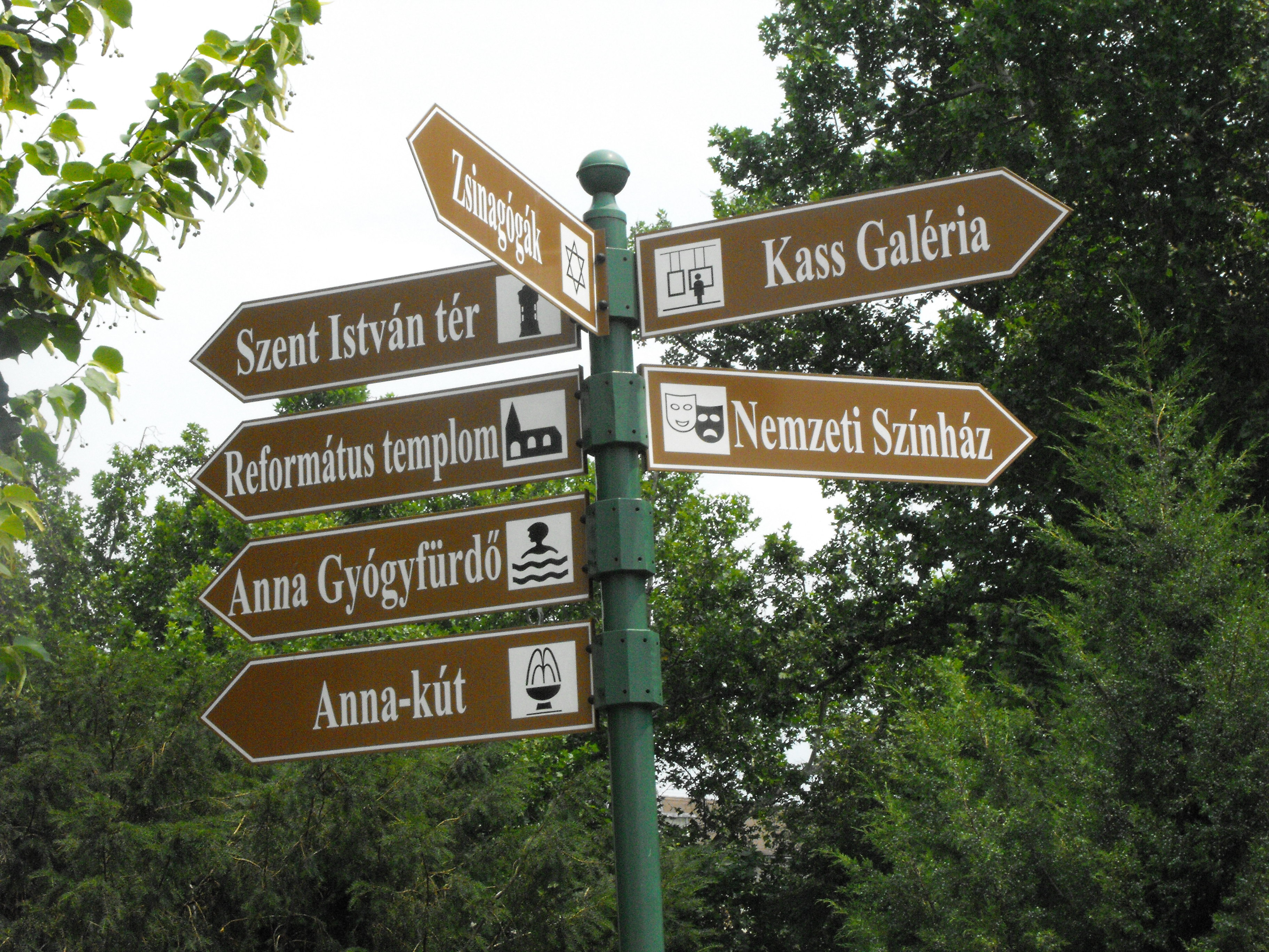 Sign in the Széchenyi Square, Szeged, showing the main sights of the city.